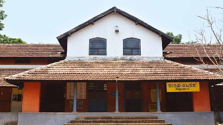 Graves of British soldiers who had laid down their lives in the 1921 Moplah Revolt